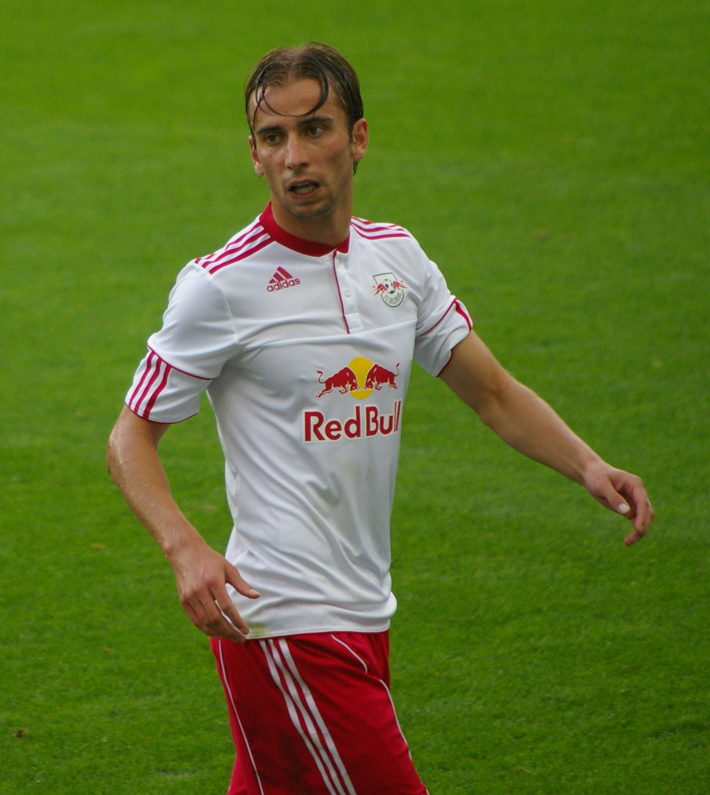 midfielder FC Salzburg